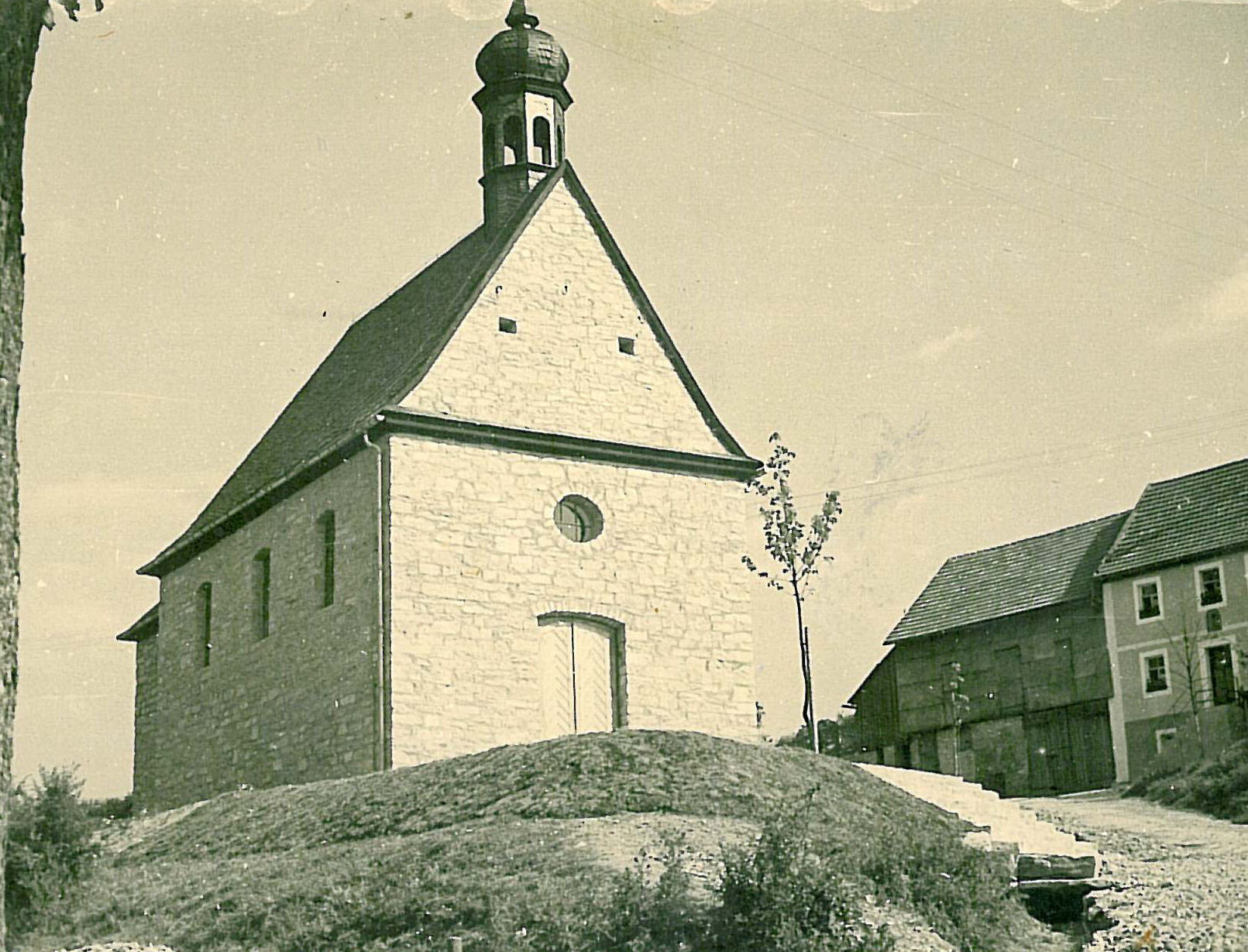 historic view of Laibarös, part of the municipality of Königsfeld